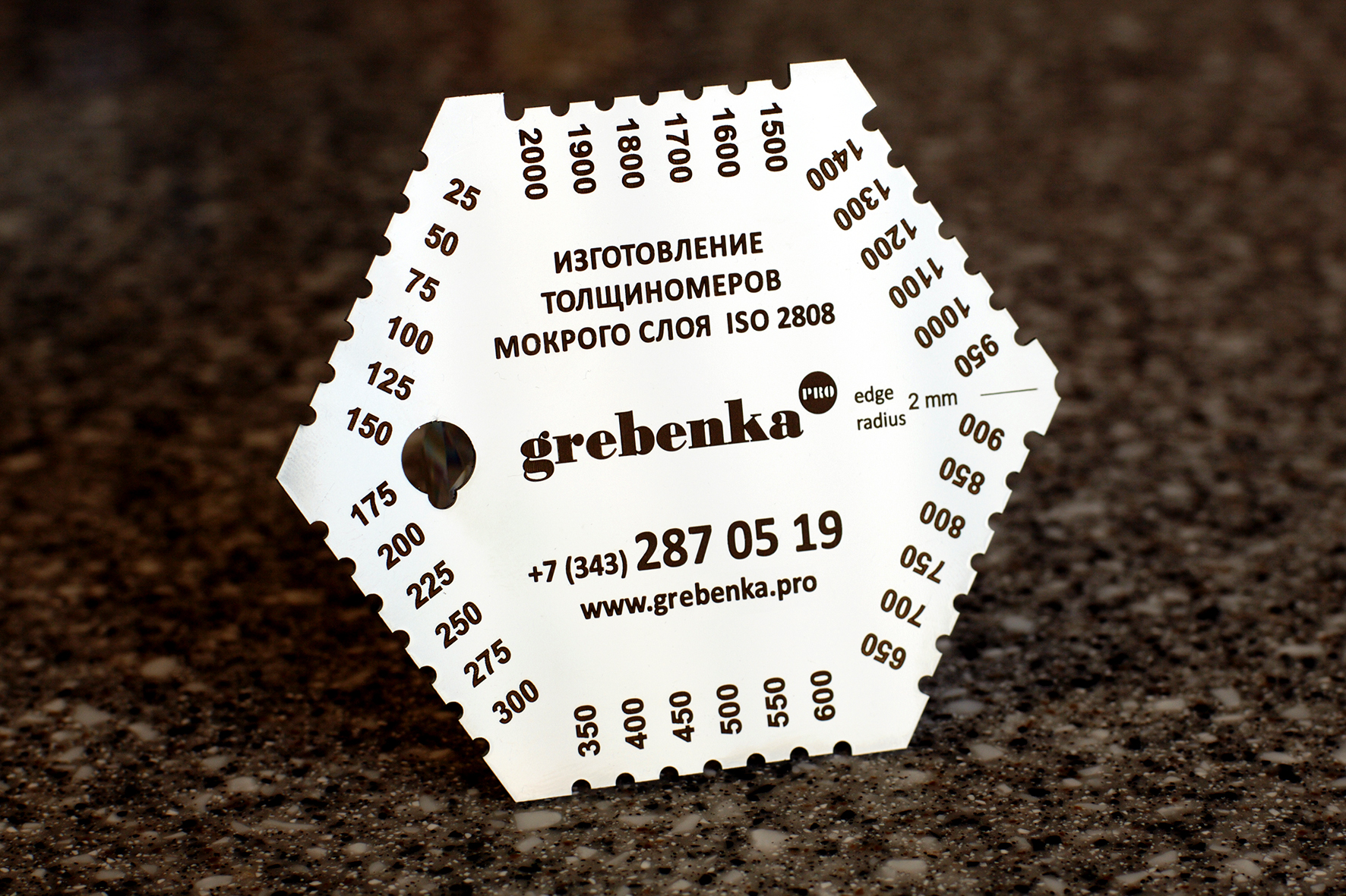 Wet film gauge